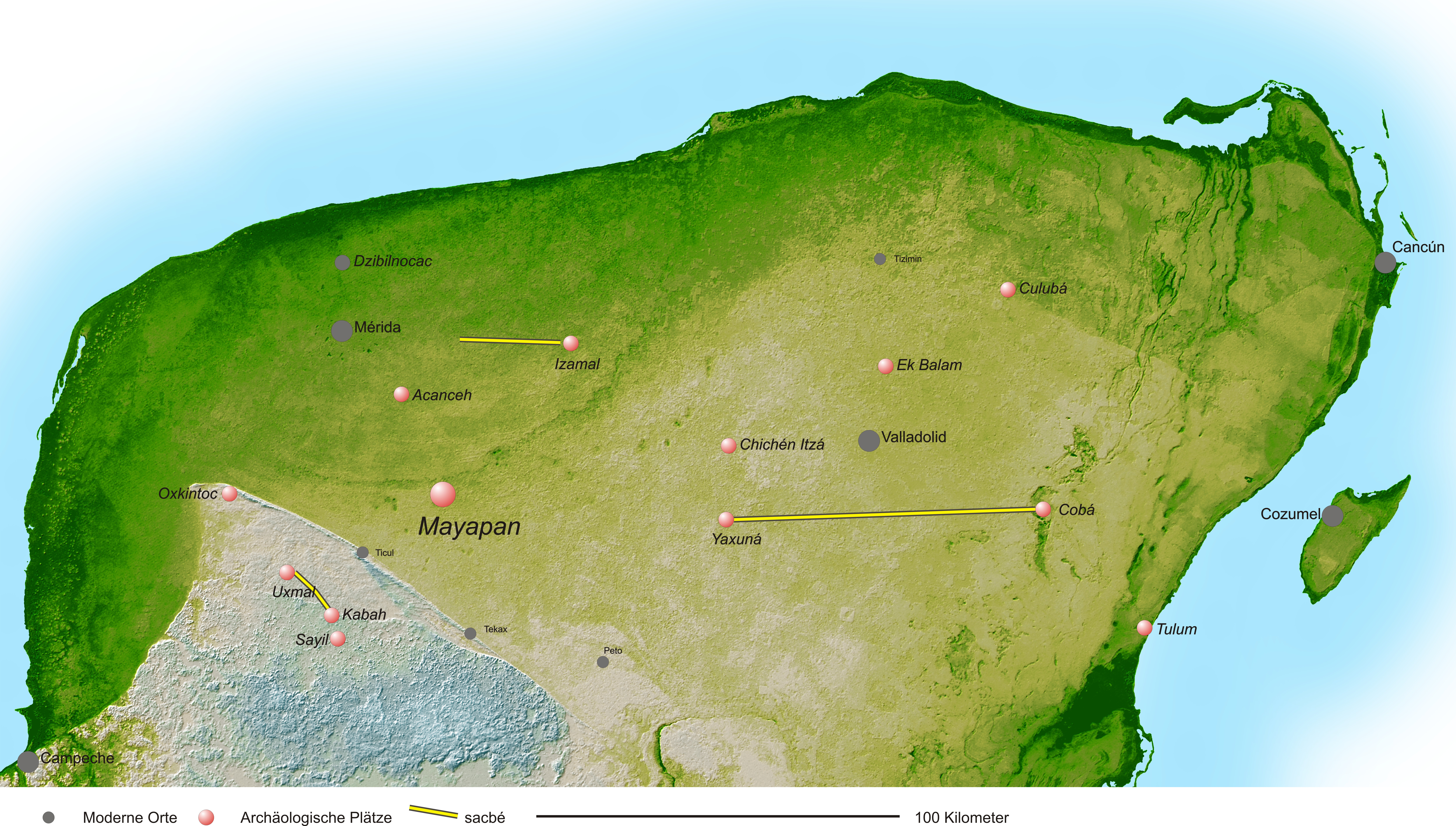 Mayapan, Yucatán, Mexico: location